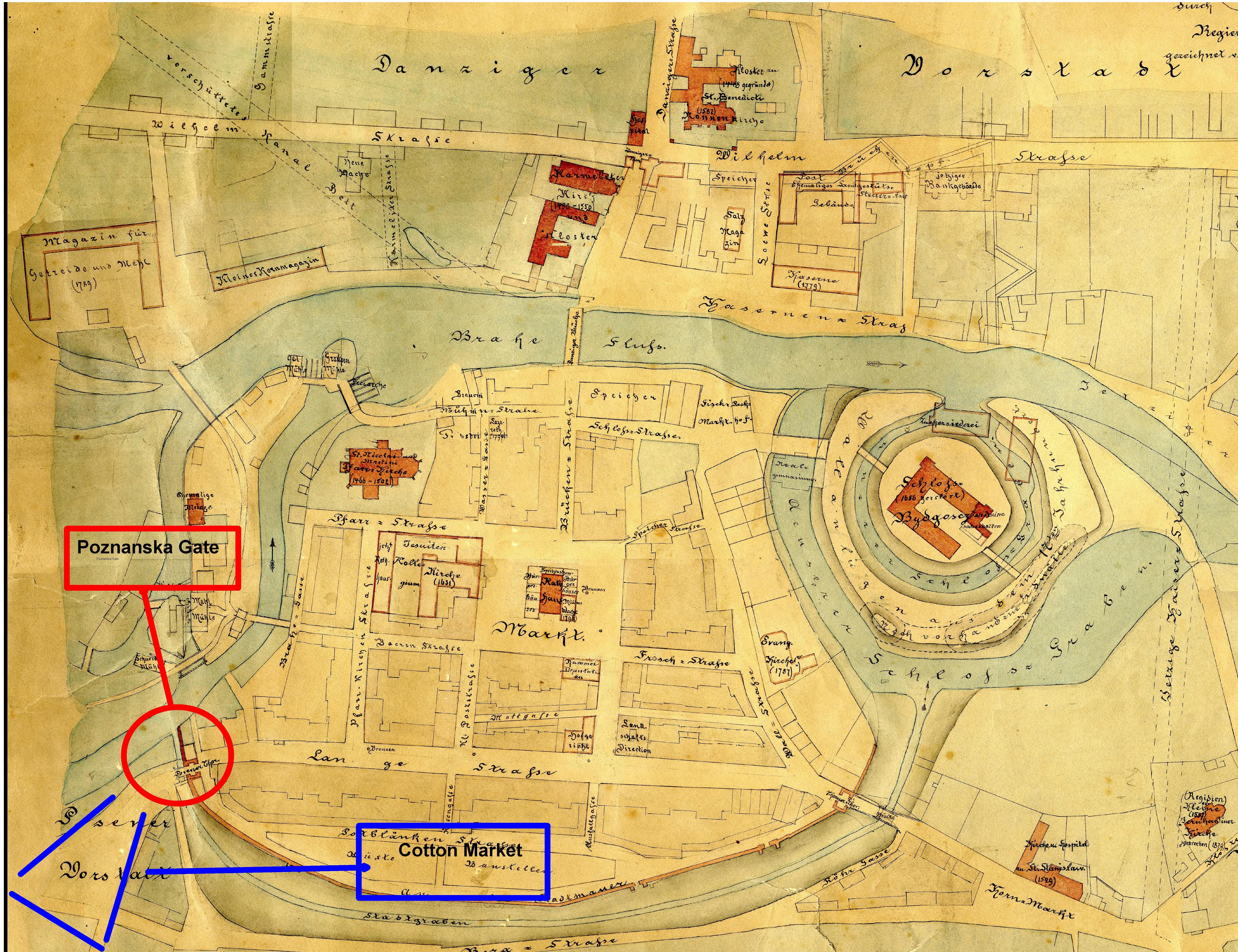 16th century map copy